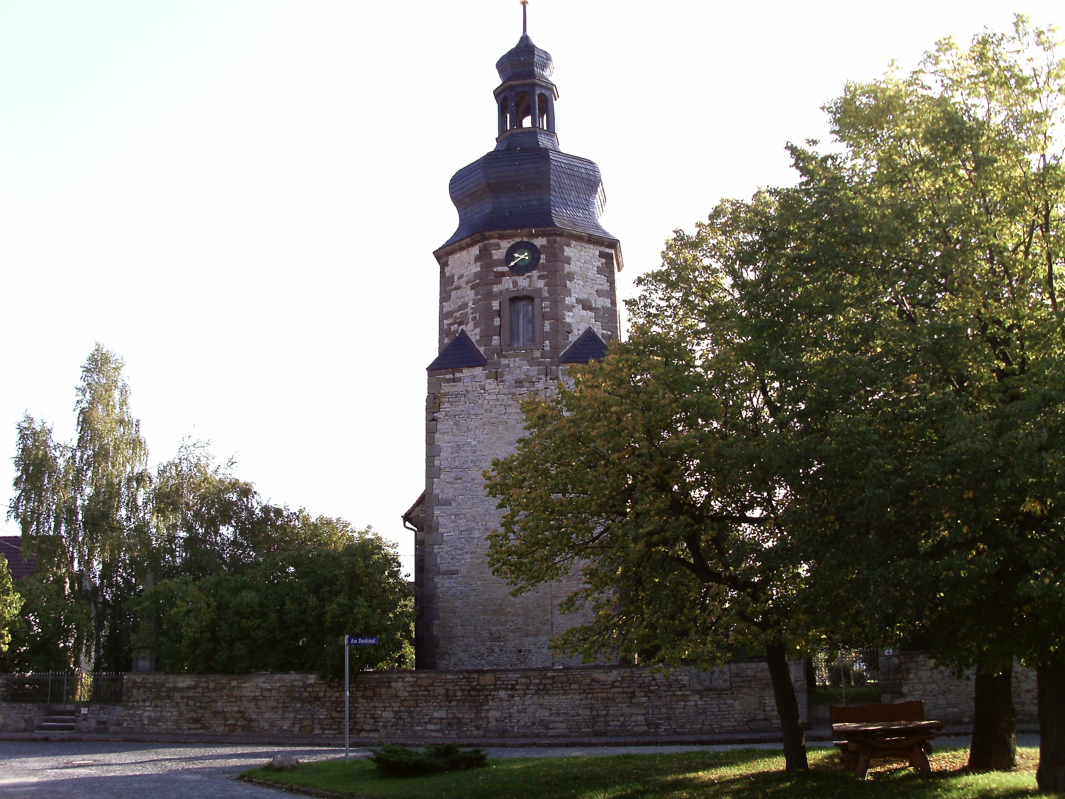 St. George's Church in Steigra (district of Saalekreis, Saxony-Anhalt)